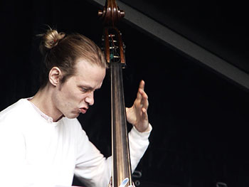 Jasper Høiby in Aarhus 2013